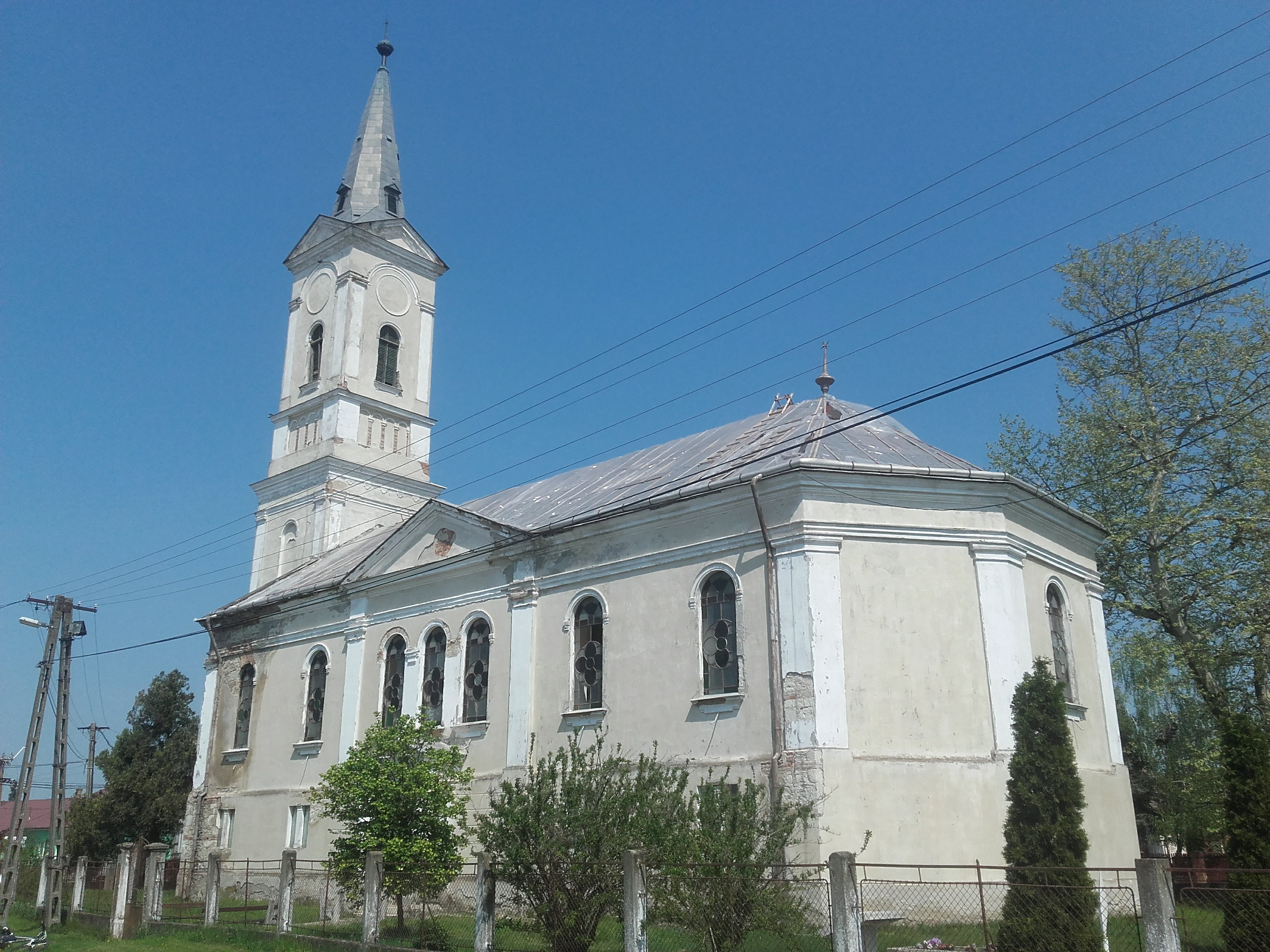 Reformed church of Kesznyéten, Hungary, built in 1908.